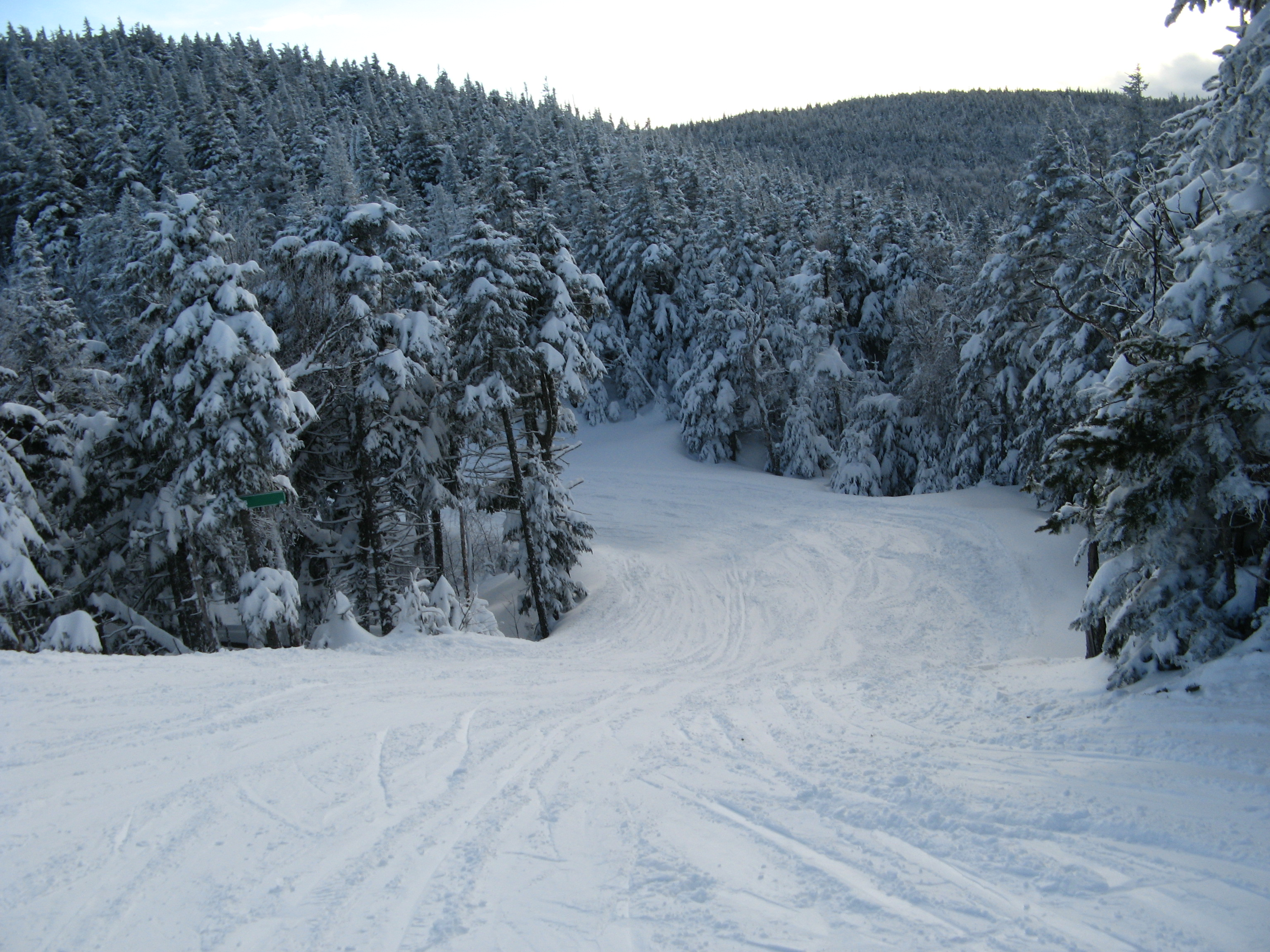 The Kansas trail at Sunday River, January, 2008.